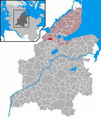 Locator maps of municipalities in Schleswig-Holstein - District Rendsburg-Eckernförde